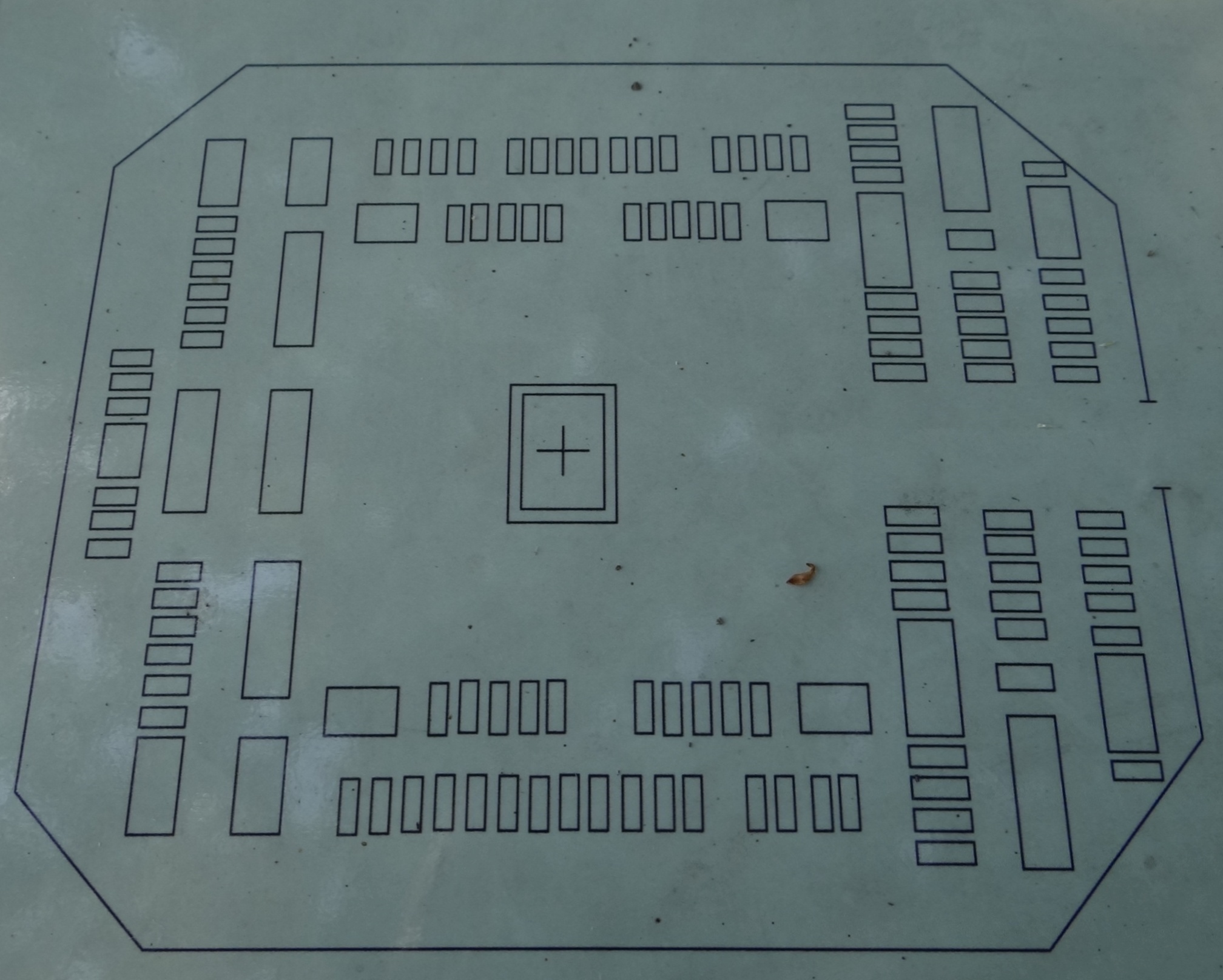 World War I Cemetery nr 163 in Tuchów